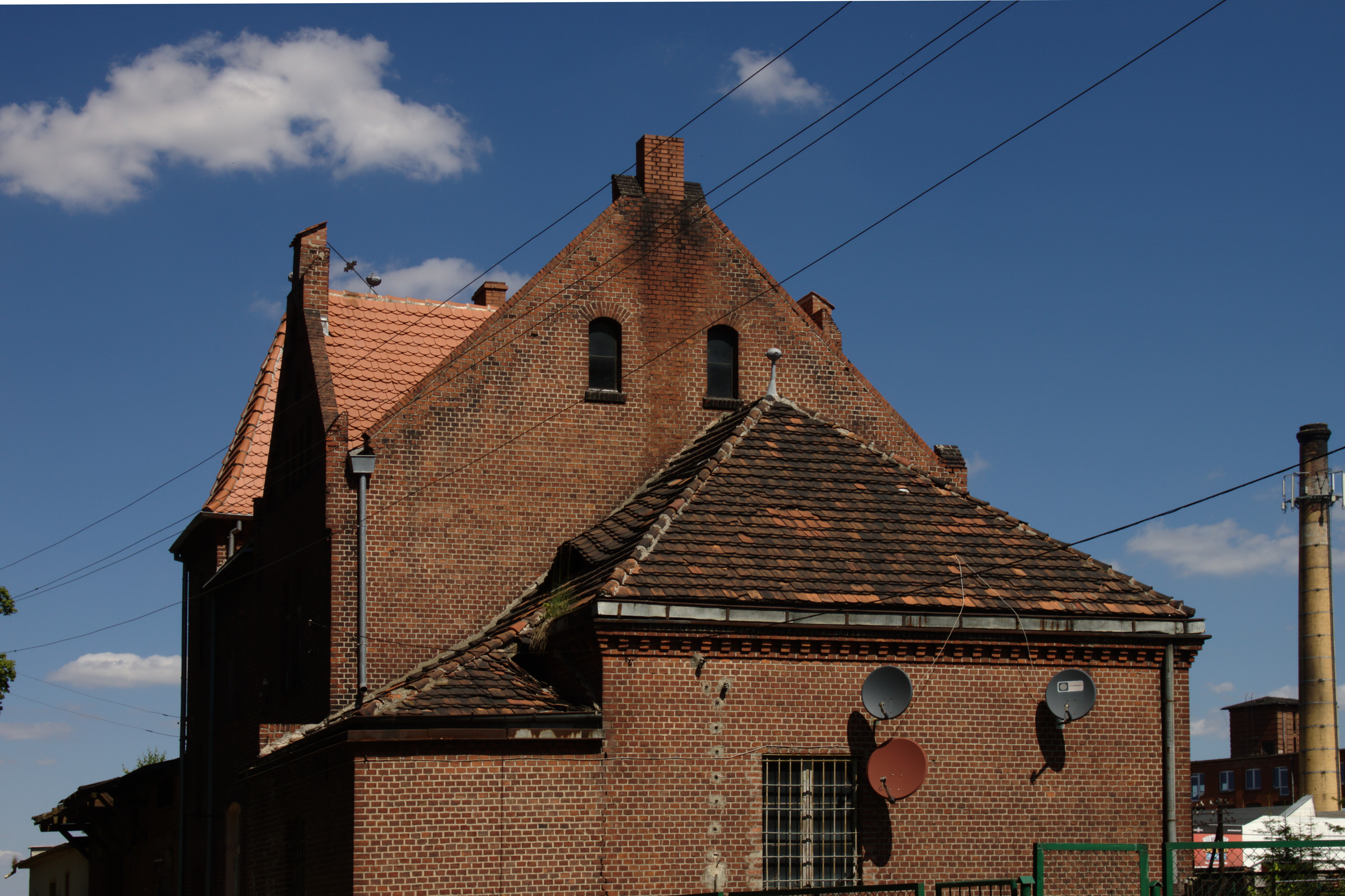 Former narrow-gauge track train station in Dzierżoniów, Poland